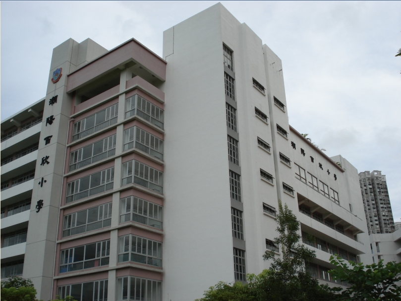 Chiu Yang Por Yen Primary School is located in Tin Shui Wai, NT, Hong Kong.